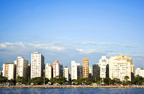 Santos, cidade do litoral brasileiro.